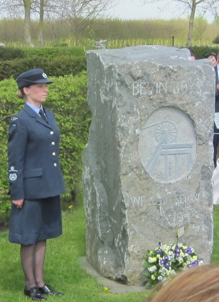 Dedication of Memorial, National Memorial Arboretum, Alrewas, Staffordshire